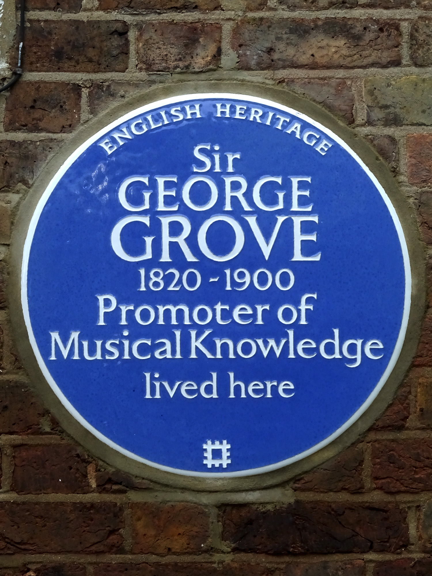 Blue plaque erected on 5th July 2016 by English Heritage at 14 Westwood Hill, Sydenham, London SE26 6QR, London Borough of Lewisham